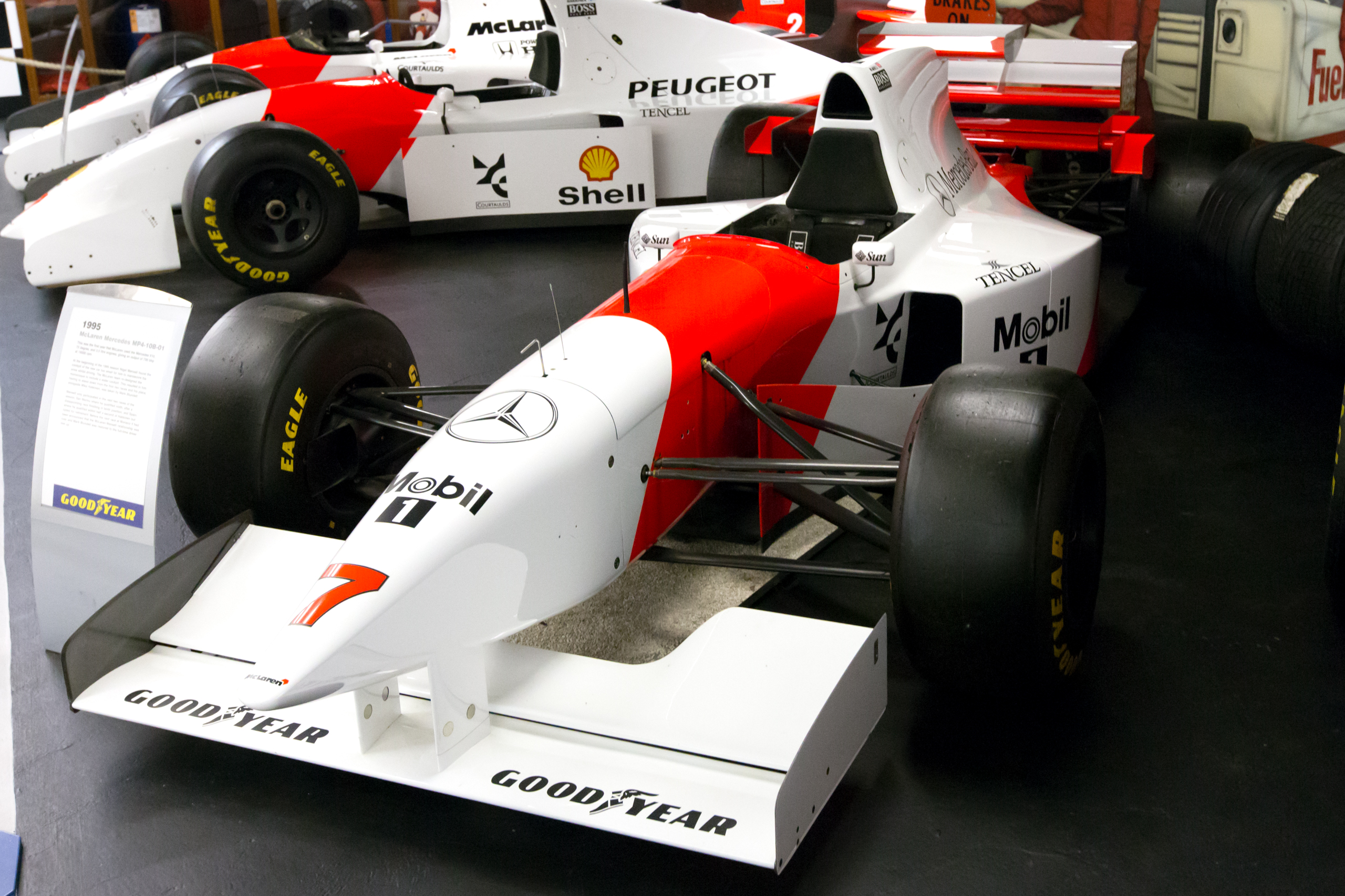 1995 McLaren MP4/10B (#7 Nigel Mansell)